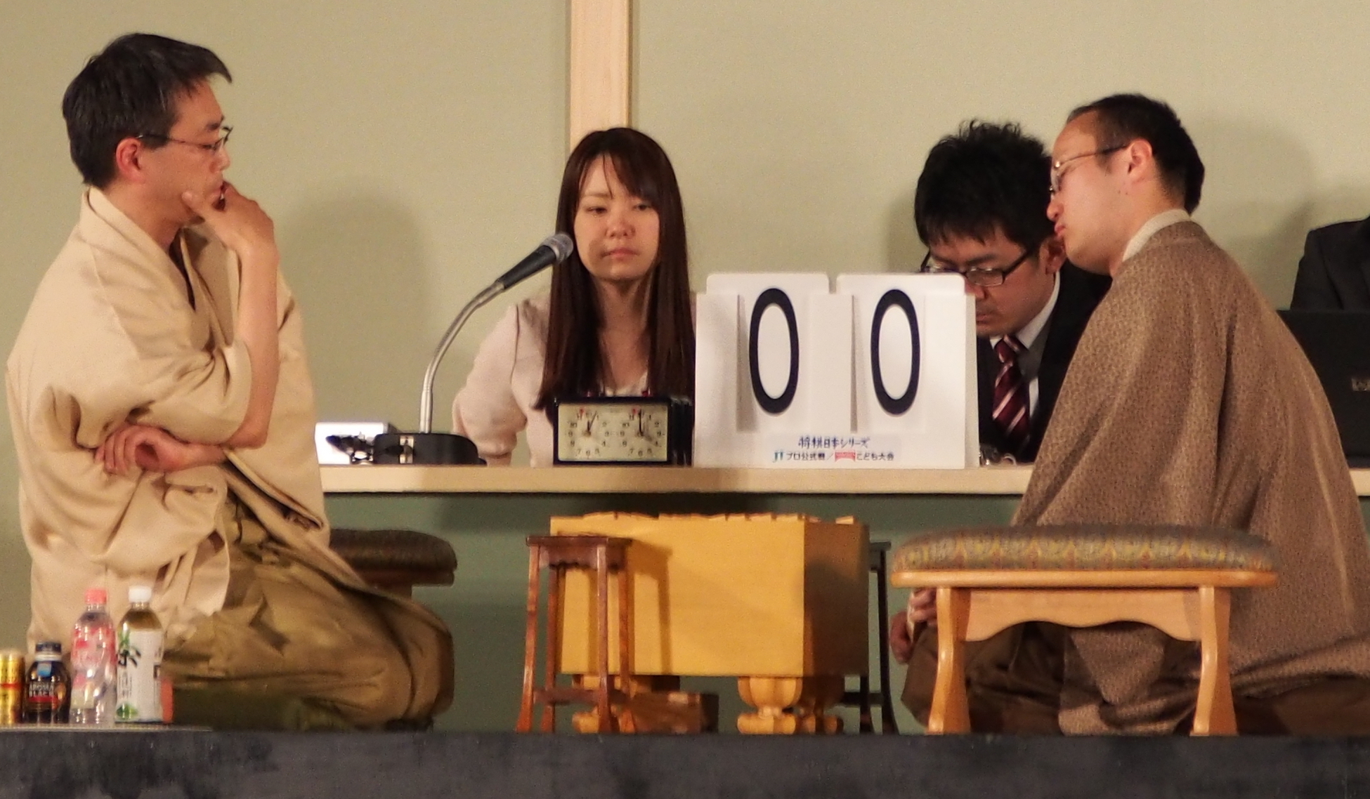 Shogi Japan Series Final at Tokyo 2014 professional shogi players 羽生善治 and 渡辺明